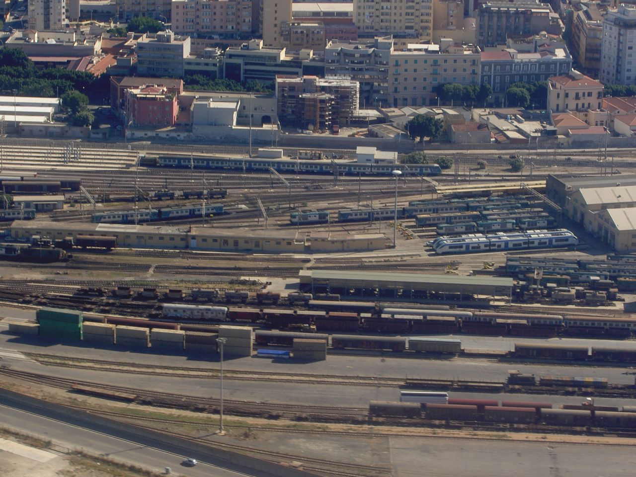 Aerial view of the Cagliari train station, in Sardinia, Italy. In the foreground the goods station of Cagliari San Paolo, behind it the workshop and depots for the trains. In the background the wash area for the rolling stocks.